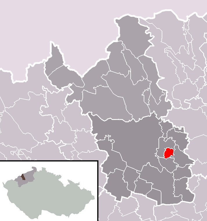 Location of Patokryje municipality within Most District and administrative area of Most as a Municipality with Extended Competence.